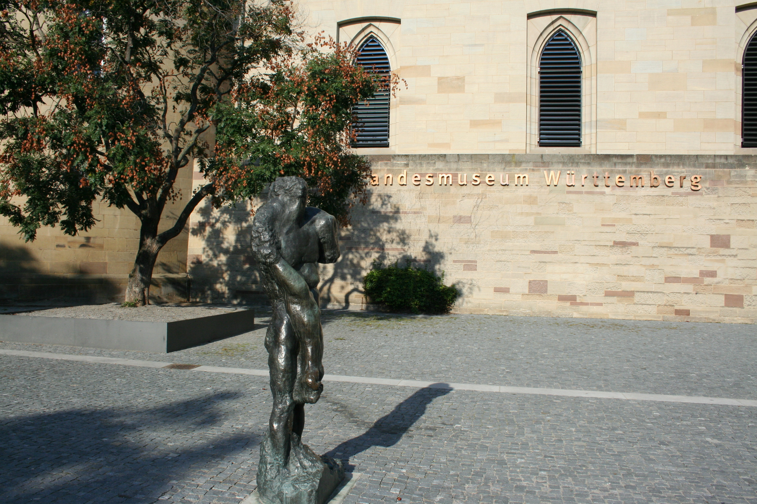 State Museum Württemberg, Old Castle Stuttgart, Germany – Sculpture by Alfred Hrdlicka, Sterbender, 1955–1958